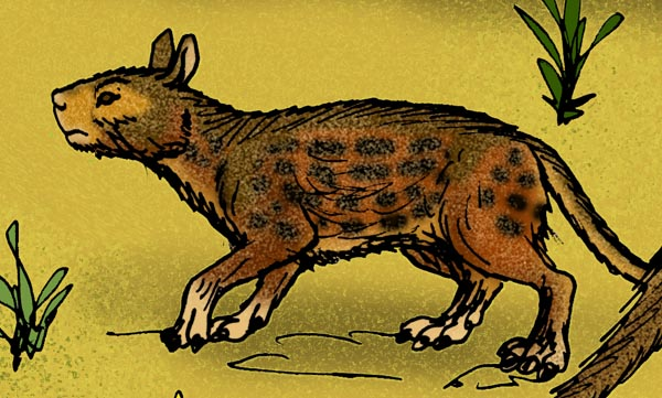 Reconstruction of the small, dog-sized oreodont, Miniochoerus, which lived in the United States from the late Eocene to the Oligocene/